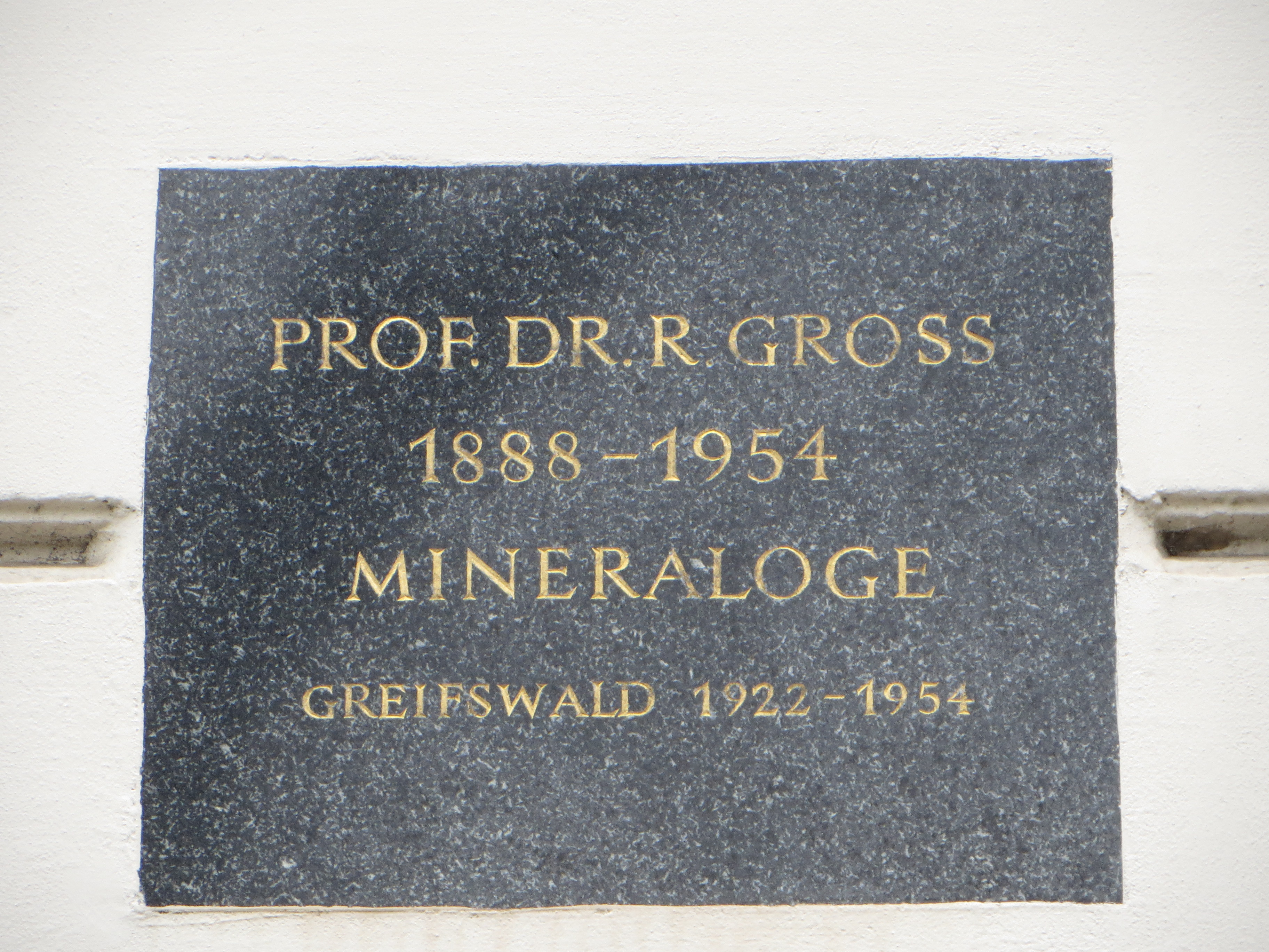 Karl-Marx-Platz 18, Greifswald Plaque commemorating Rudolf Groß (Mineraloge)